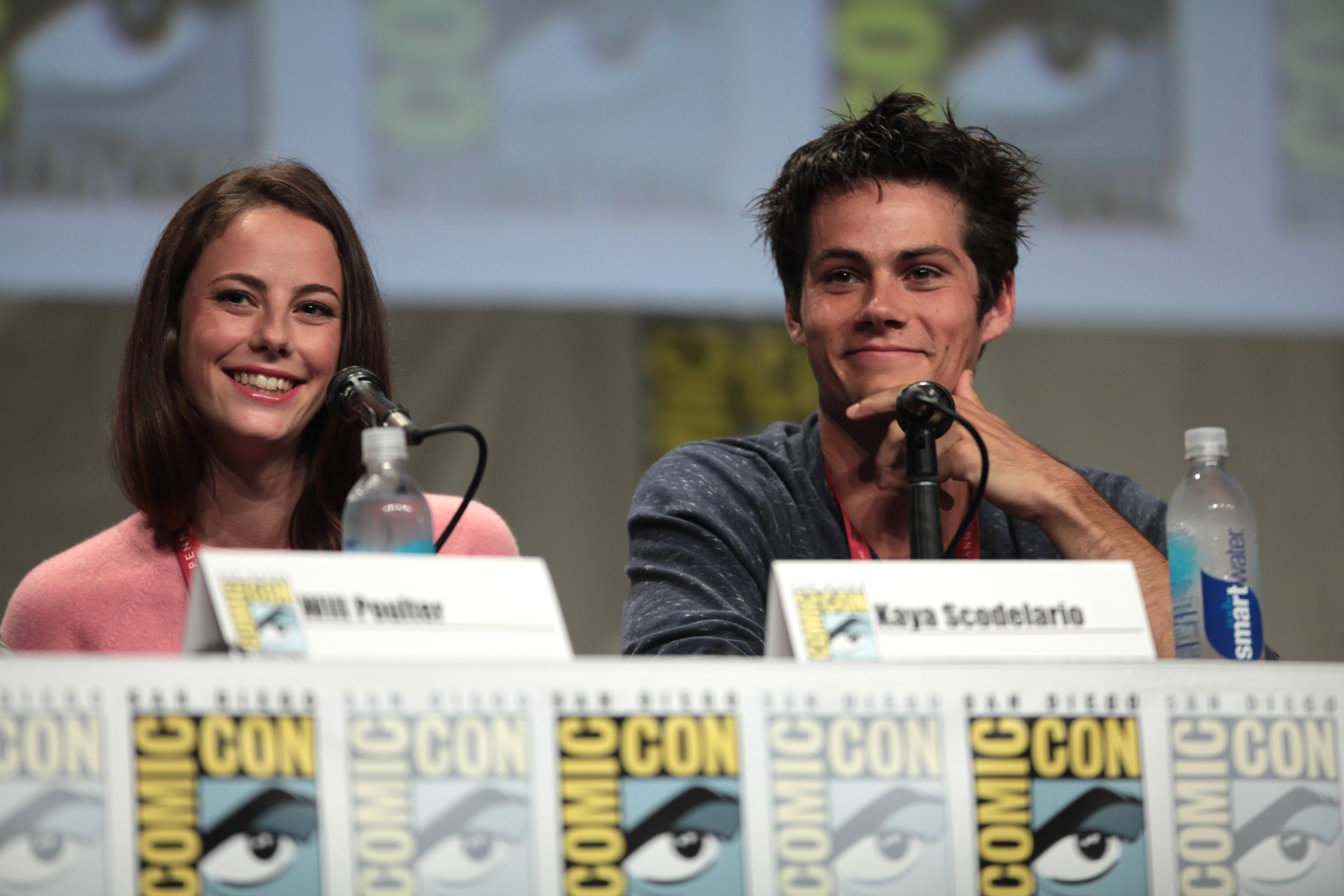 Kaya Scodelario and Dylan O'Brien speaking at the 2014 San Diego Comic Con International, for "The Maze Runner", at the San Diego Convention Center in San Diego, California.